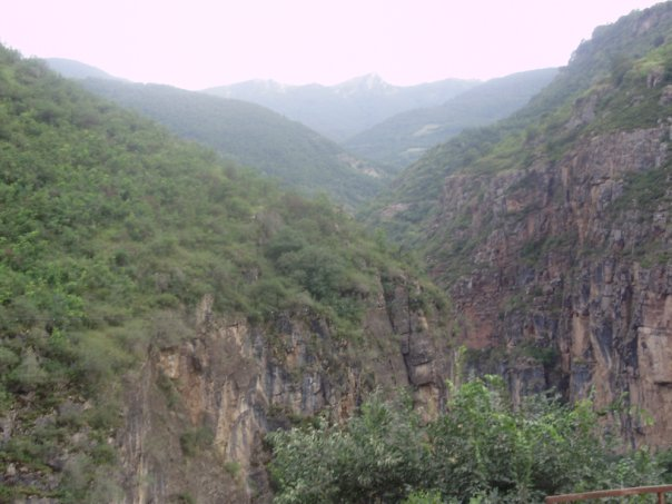 Satani kamurdzh (Devil's bridge). A natural bridge over river Vorotan. Location: Syunik province, Republic of Armenia.